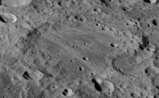 Oblique view of Szilard, facing northeast, on the far side of the moon.